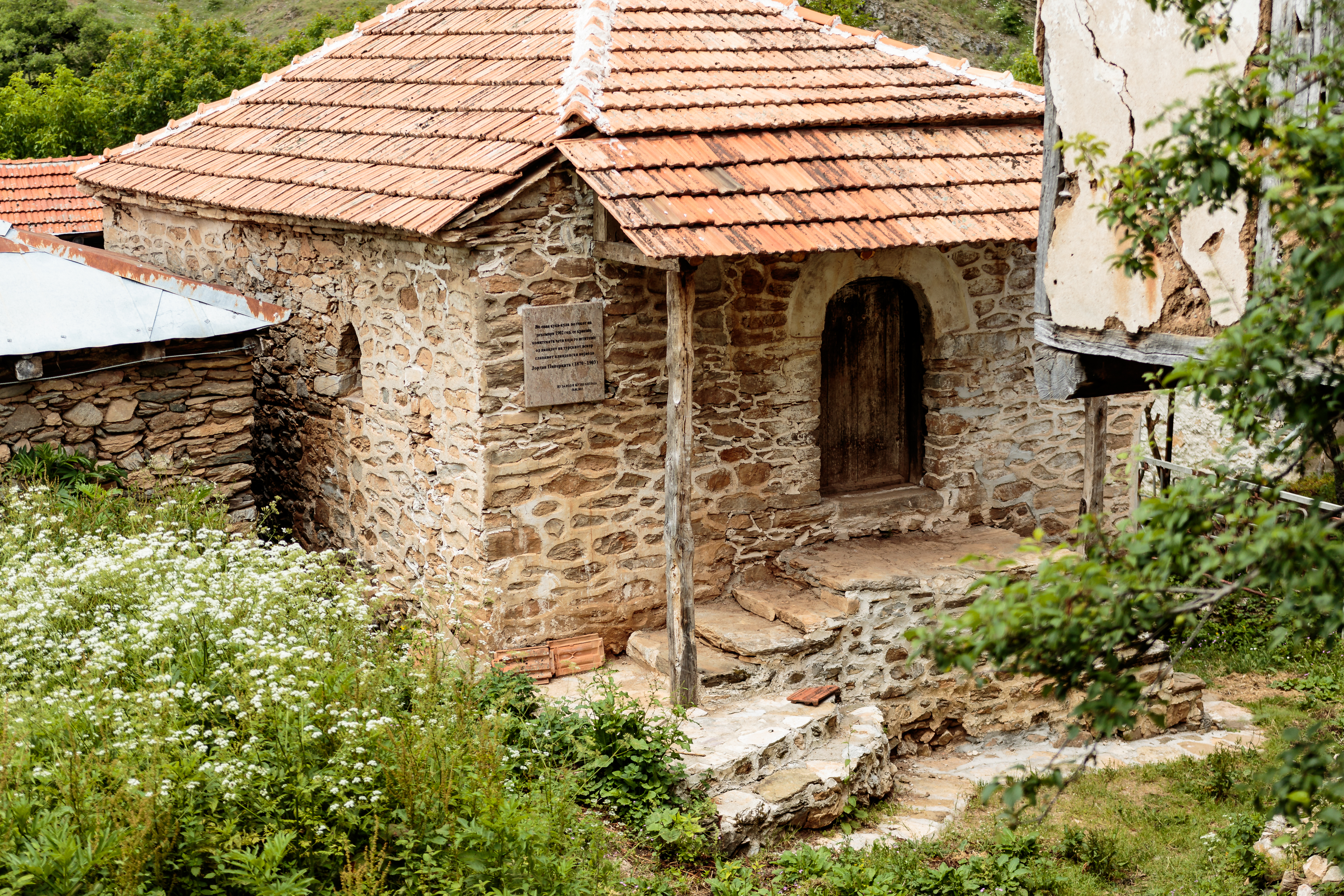 Tower of Jordan Piperkata in the village Brezovo